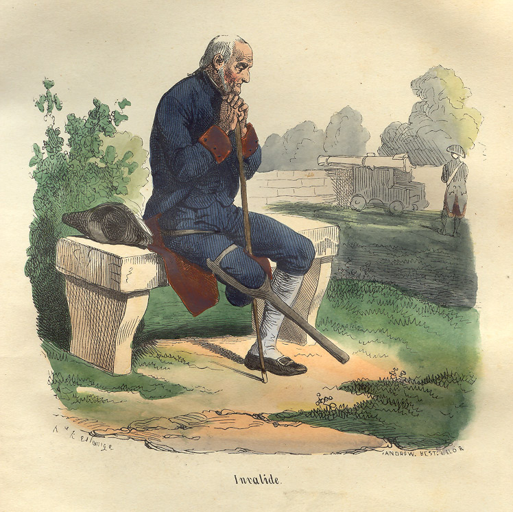 A disabled French soldier from the Napoleonic era. From book of P.-M. Laurent de L`Ardeche «Histoire de Napoleon», 1843